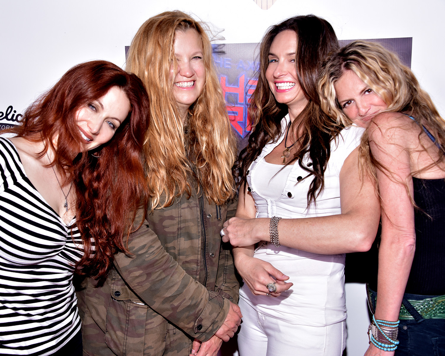 Zepparella at the Malibu Guitar Festival on May 19, 2017 - Photo by Glenn Francis of